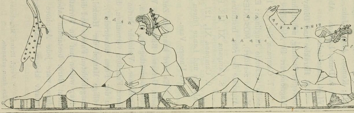 Drawing from Greek psykter painted by Euphronios, Hermitage 644: left side